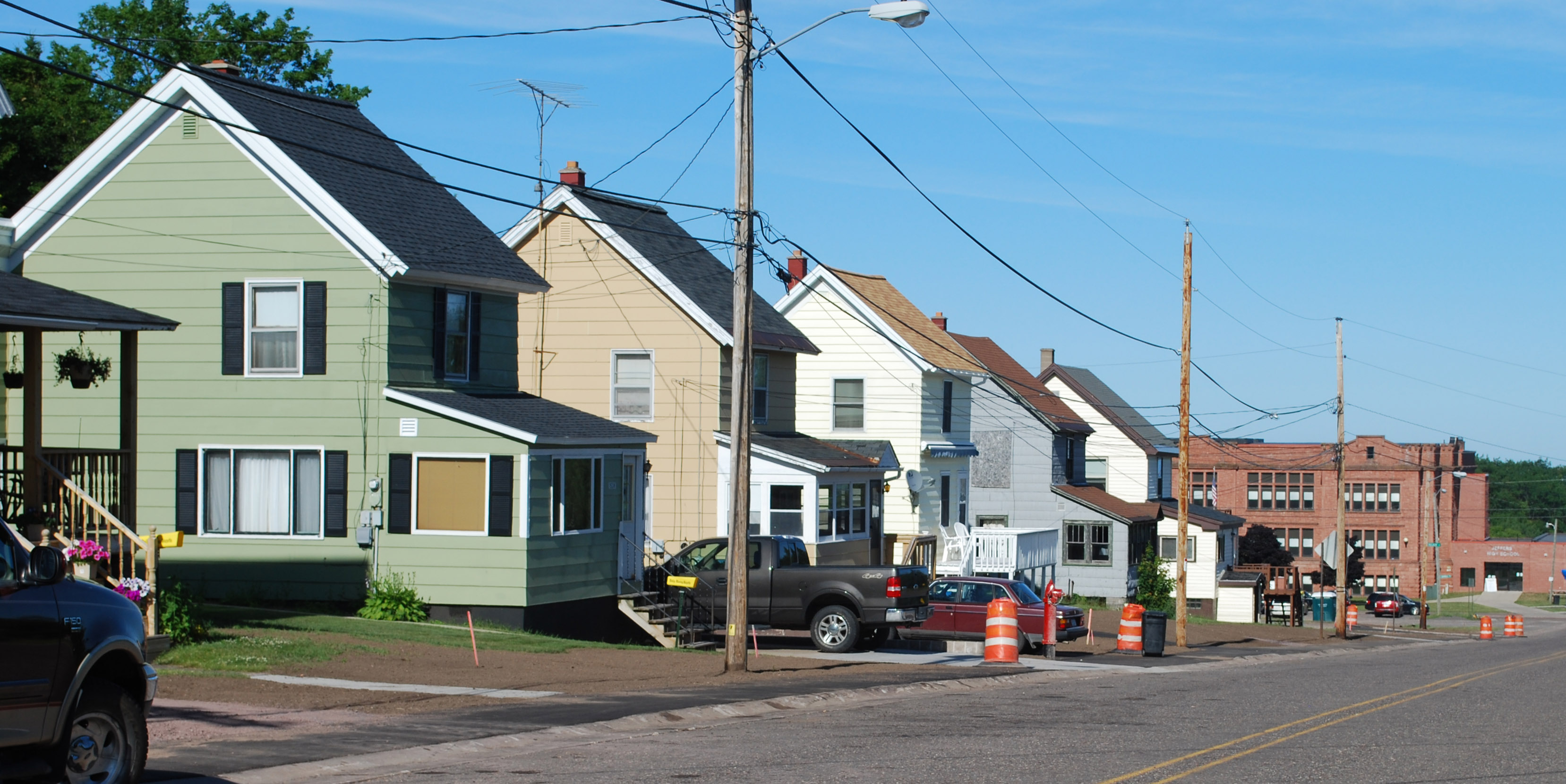 Painsedale MI Houses